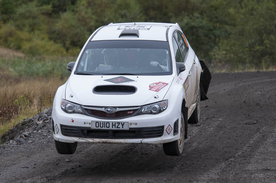 Wales Rally Great Britain 2012 Likes Land Rover at Walters Arena 1,Lorenzo Bertelli,Lorenzo Granai,Motorsport,Rally,Rallye,SS16,Subaru Impreza WRX STi,WP16,WRC,Wales Rally GB